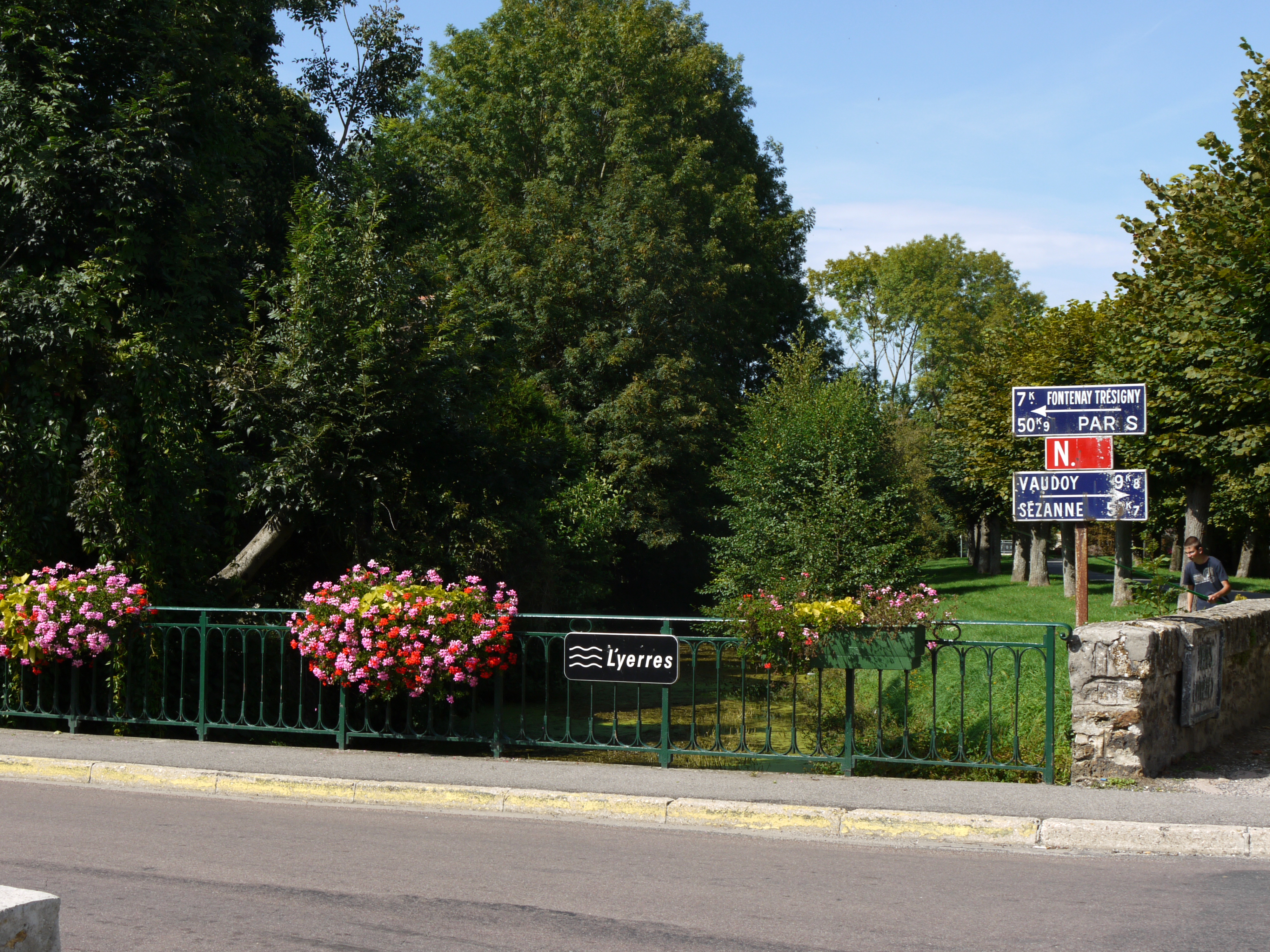 Yerres river in Rozay_en_Brie, Seine et Marne, Ile de France